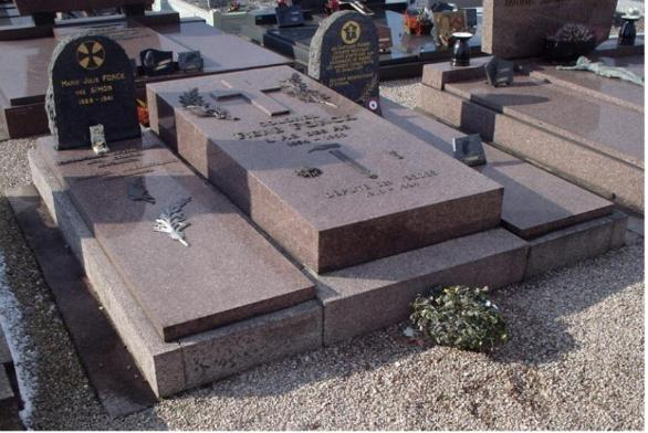 René Fonck's grave, Saulcy-sur-Meurthe, France.